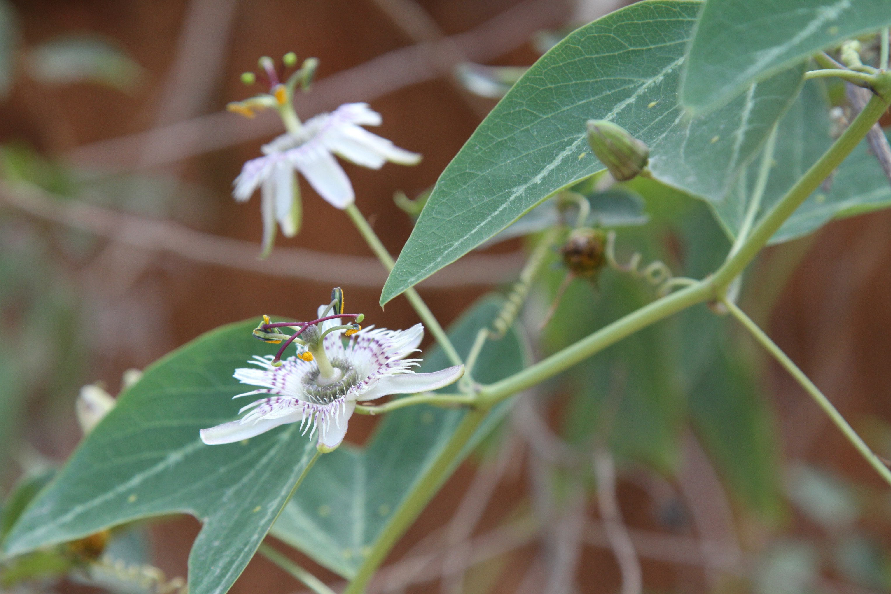 Passiflora pardifolia Vanderplank 3/5